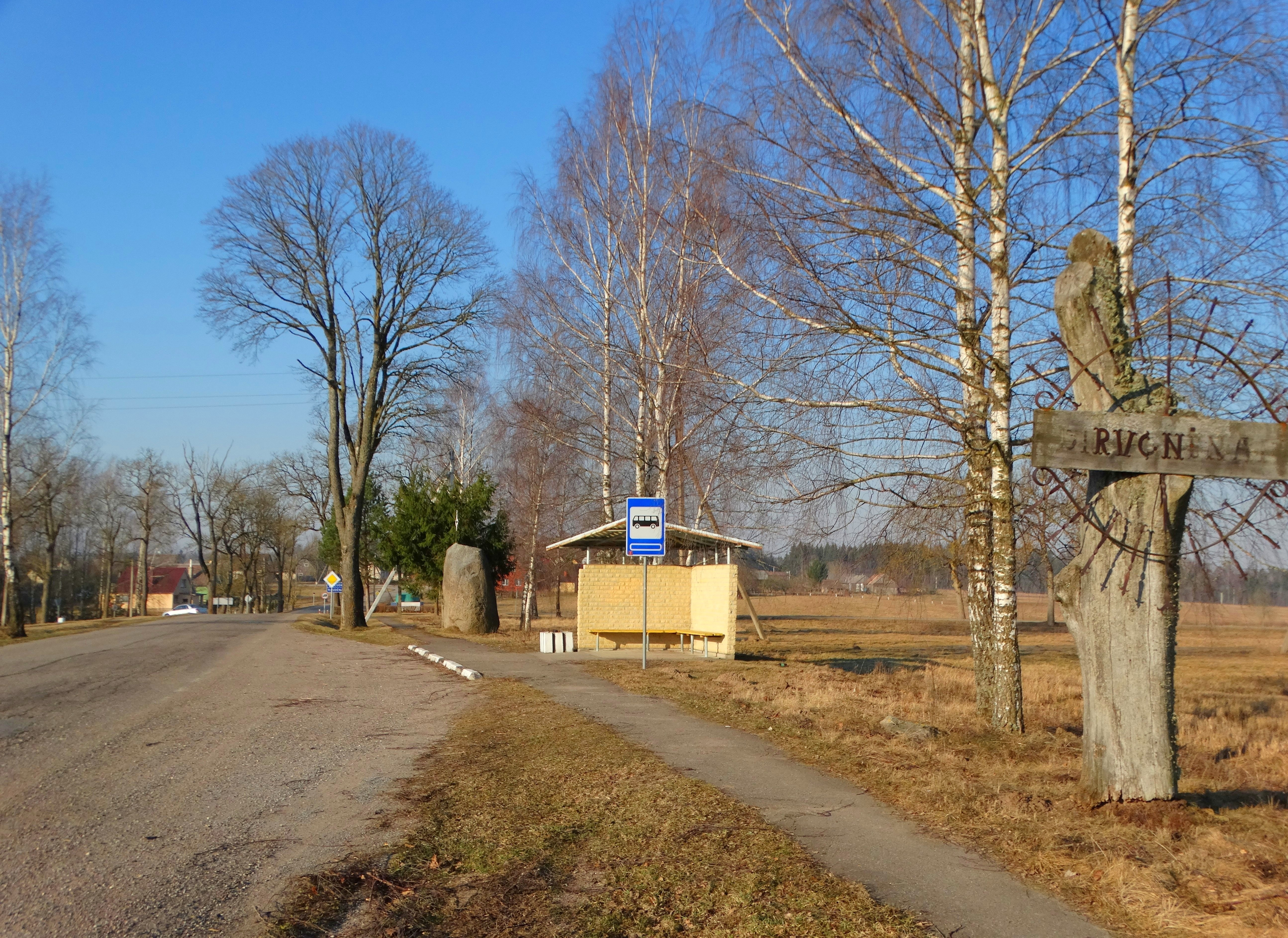 Dirvonėnai, Šiauliai district, Lithuania